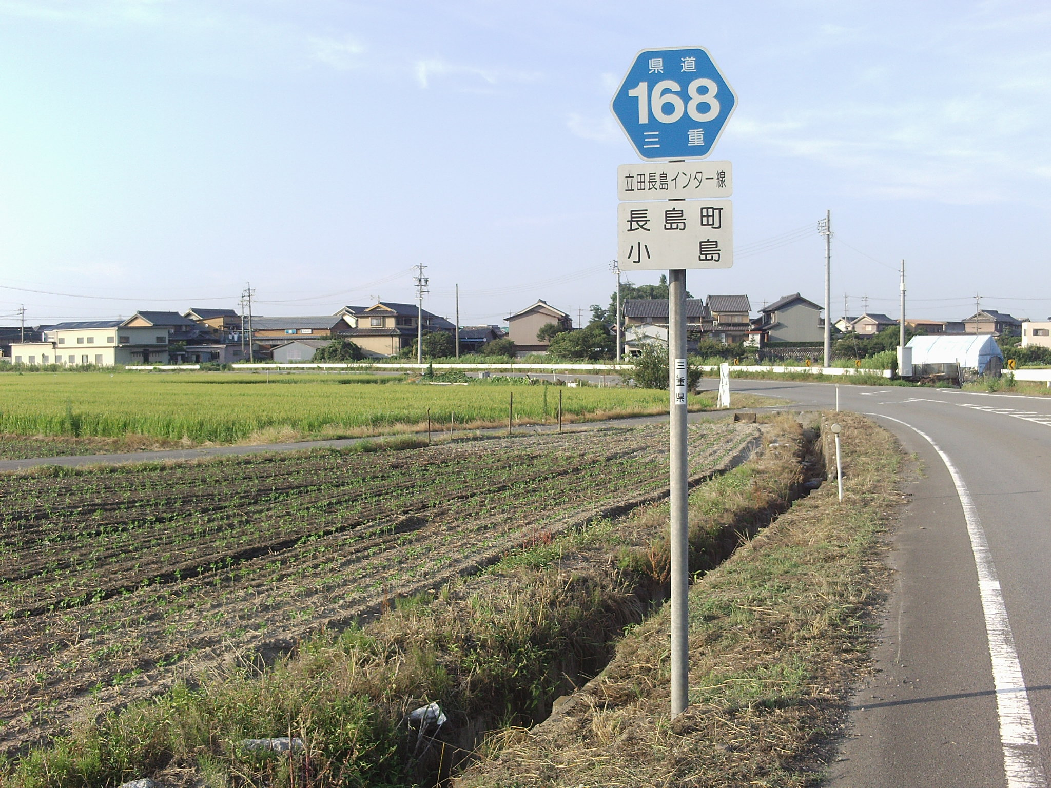 The Mie Prefectural Road Route 168 in Nagashimacho Kojima, Kuwana City